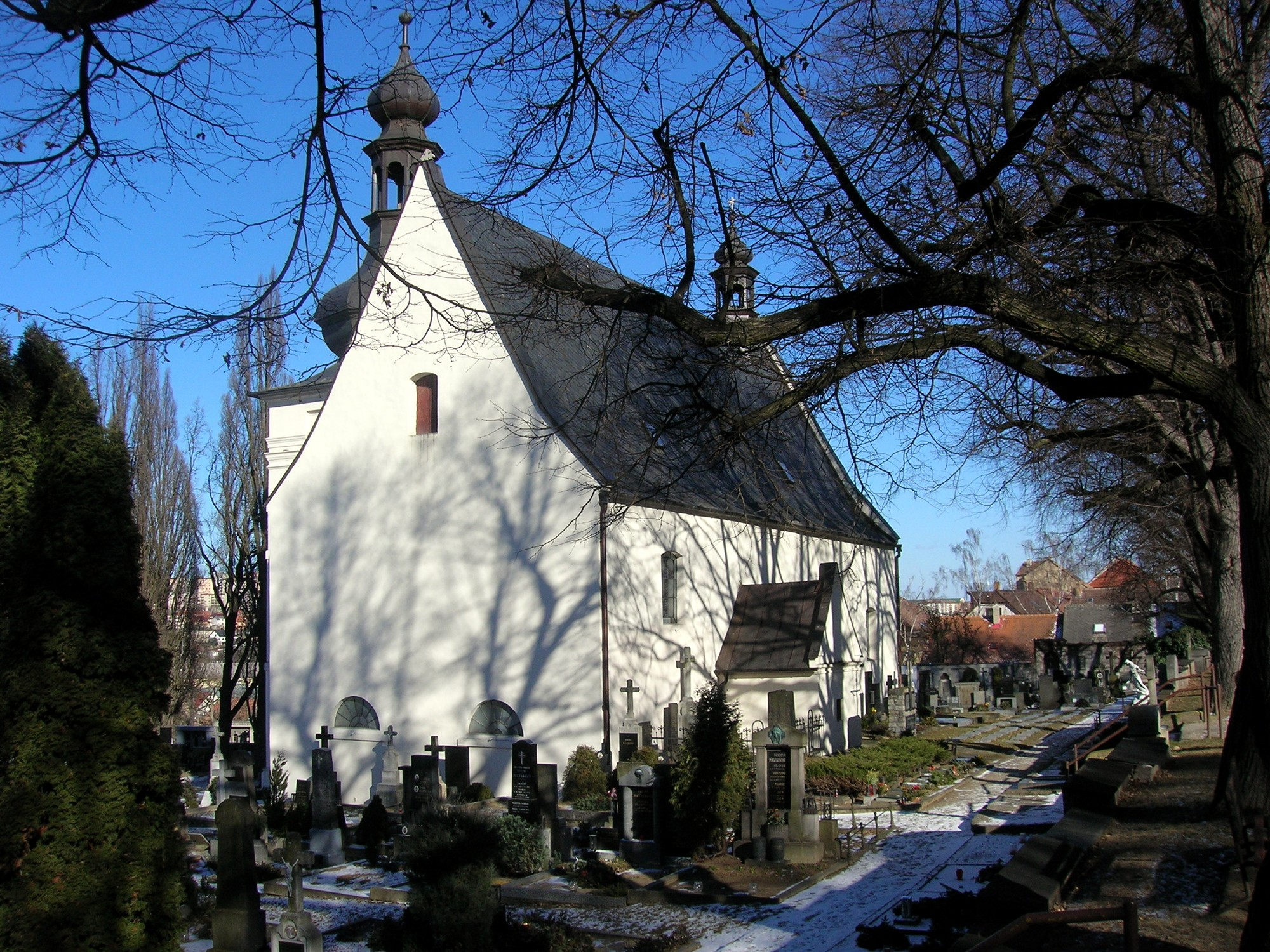 Třebíč-Domky. Holy Trinity Church